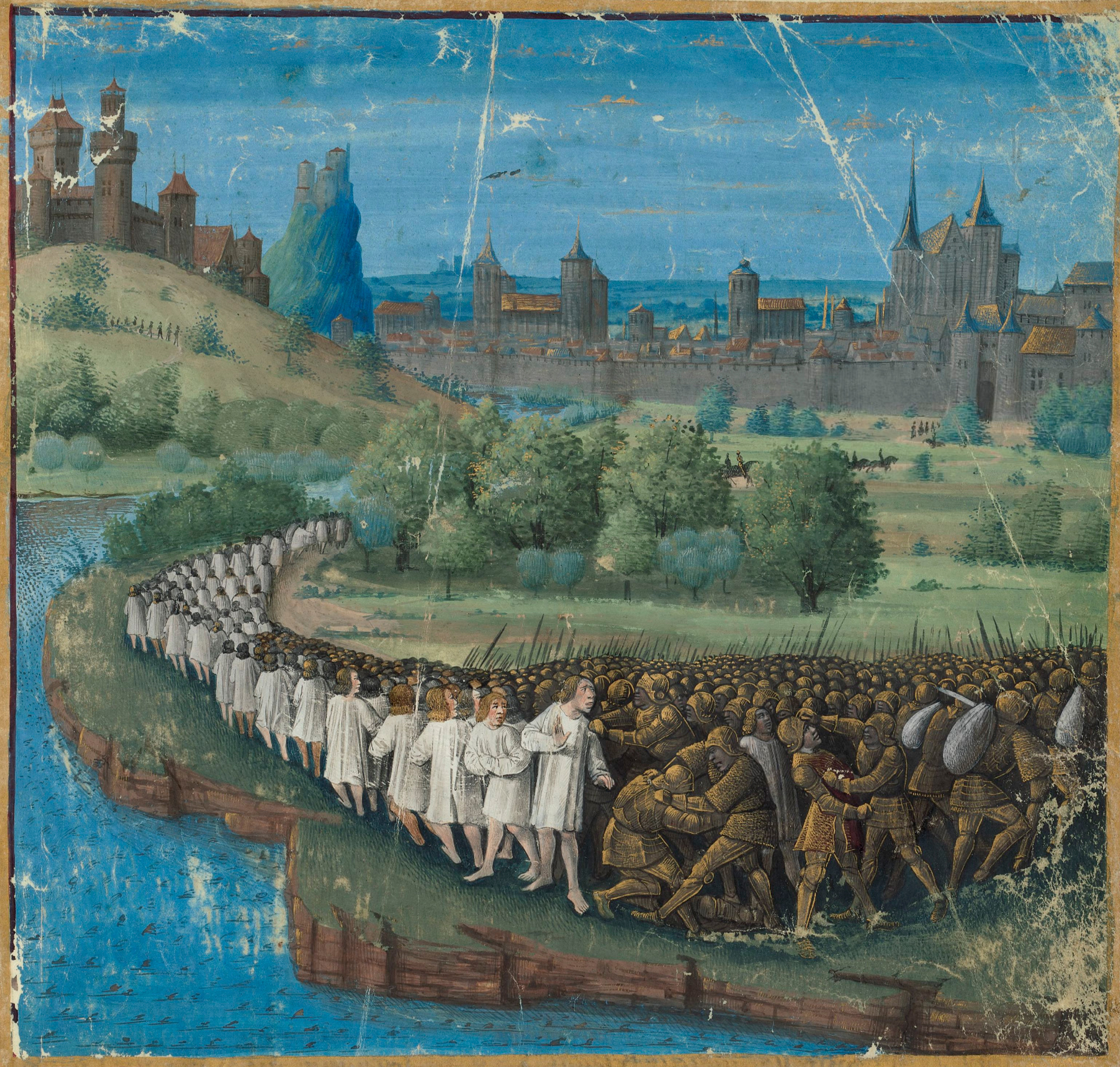 Medieval illuminated manuscript showing Peter the Hermit's People's Crusade of 1096